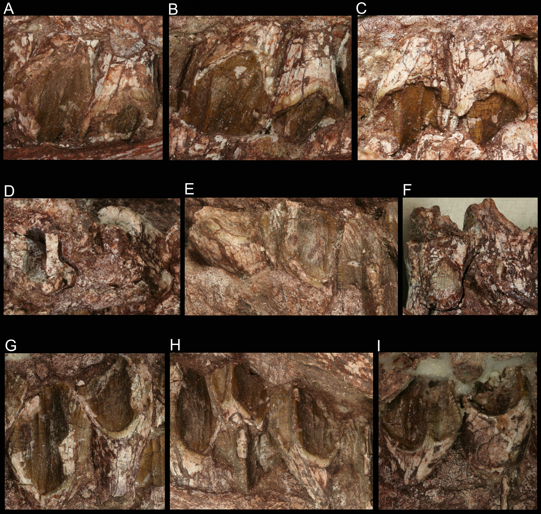 Dentition of Zhuchengceratops inexpectus holotype (ZCDM V0015).